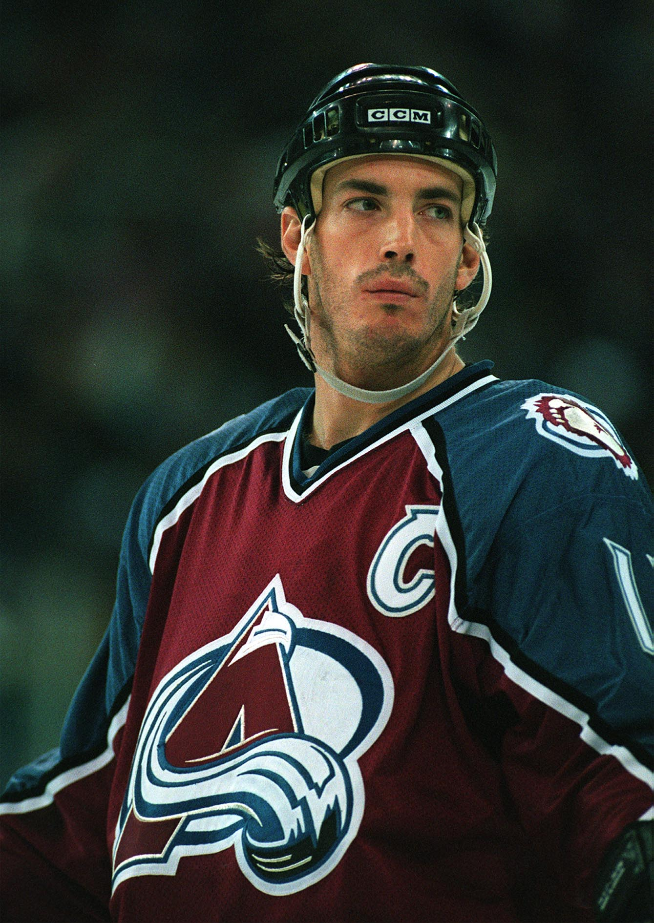 Joe Sakic, captain of the Colorado Avalanche. Image taken during a game between the Colorado Avalanche and Edmonton Oilers at the Edmonton Coliseum in Edmonton, Alberta.